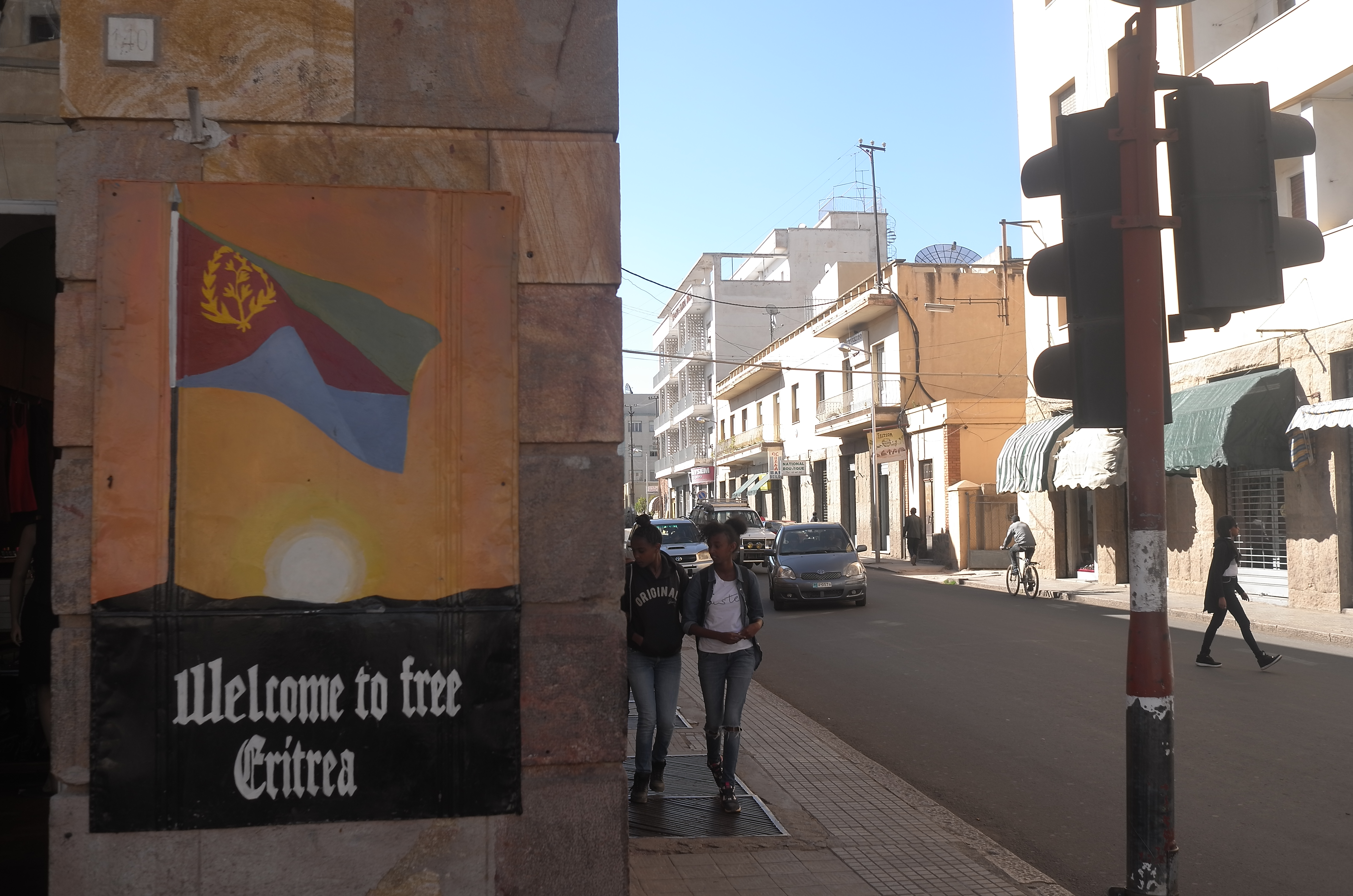 The Independence Day of Eritrea is one of the most important public holidays in the country. It is observed on May 24 every year. Picture taken on assignment for